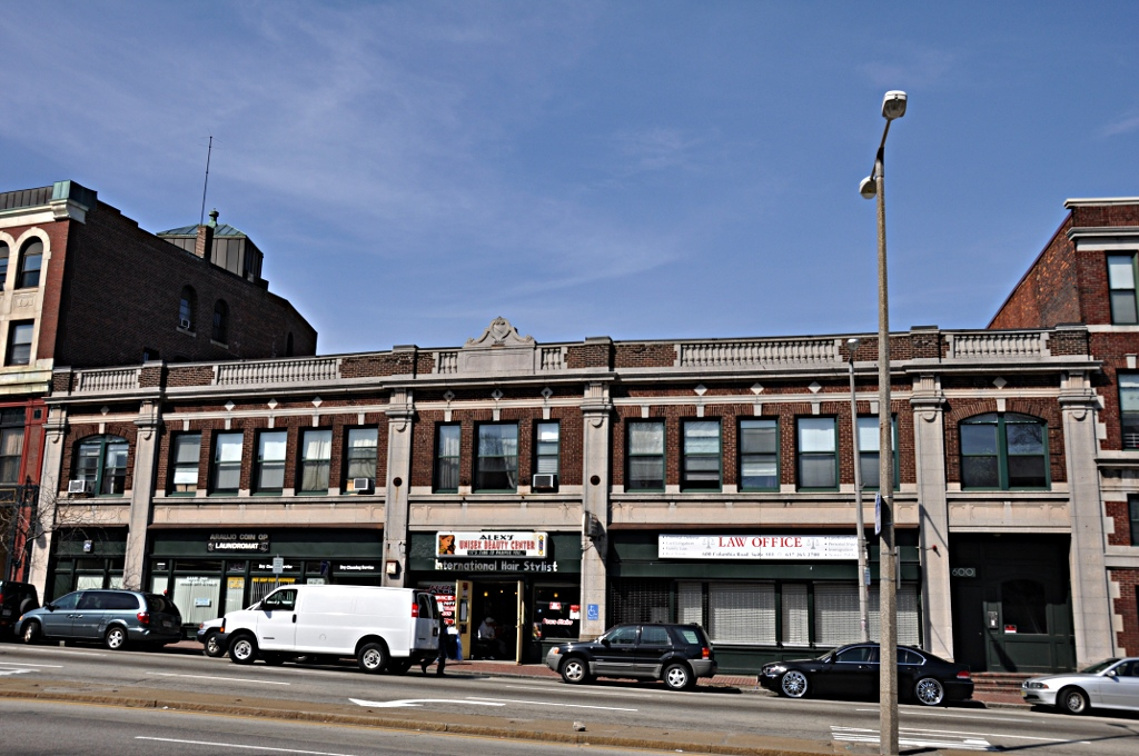 A photograph of the historic Upham's Corner Market building in the Dorchester neighborhood of Boston, Massachusetts.